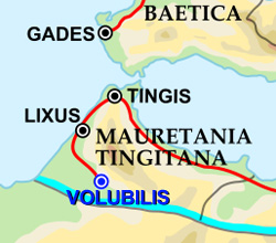 Map of Roman province of Mauretania Tingitania c. 125 AD, highlighting the position of Volubilis